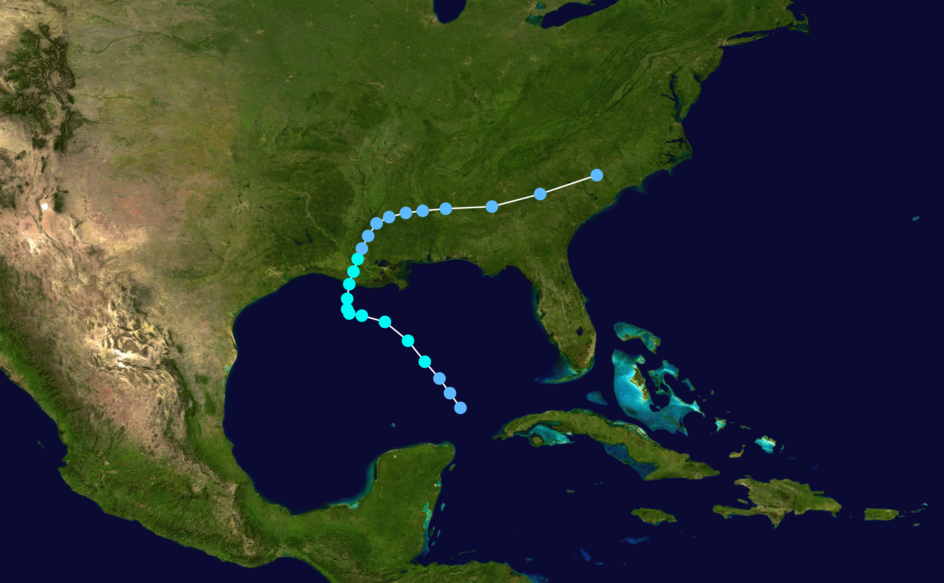 Tropical Storm Arlene (1959) track. Uses the color scheme from the Saffir-Simpson Hurricane Scale.